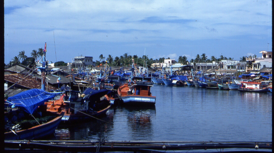 Fishing boats on the harbour of Dương Đông, Phú Quốc Island, Vietnam on December, 2002.